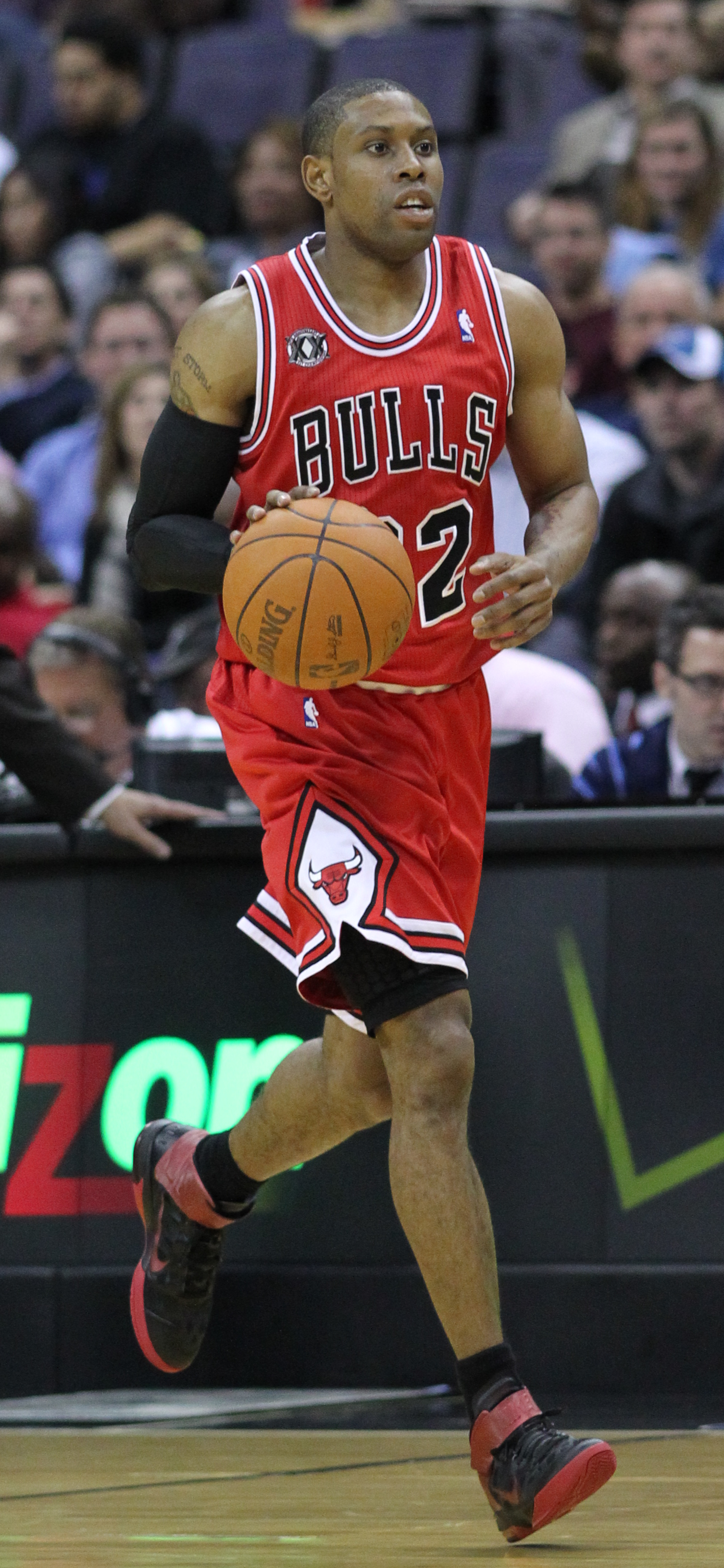 Wizards v/s Bulls 02/28/11